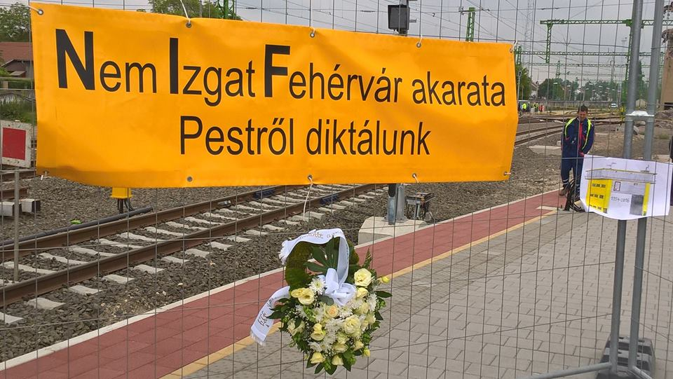 Székesfehérvár Railway Station - demolition of the Control Tower - protest